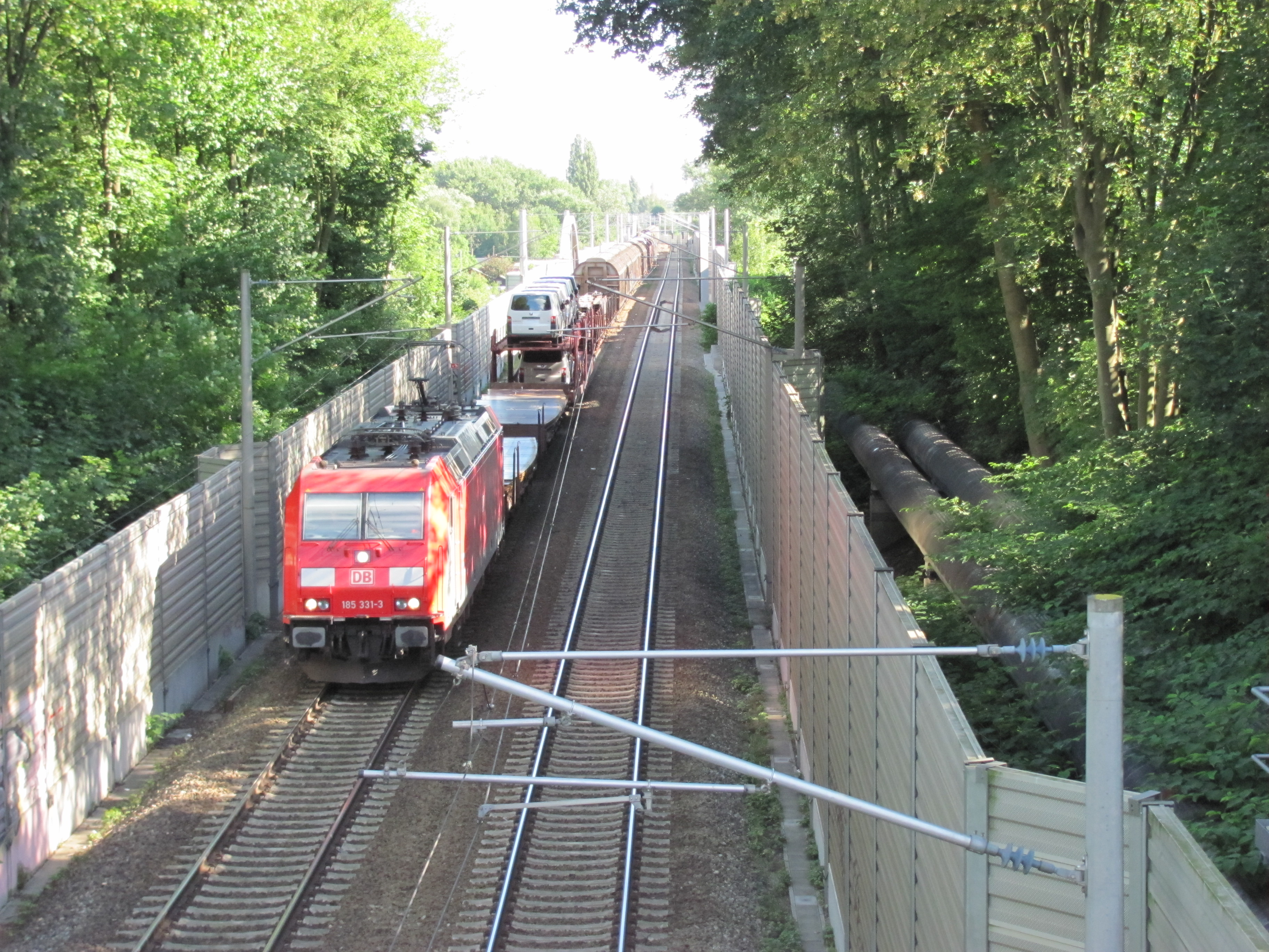 Güterumgehungsbahn Hamburg in Hamm, view from Horner Weg